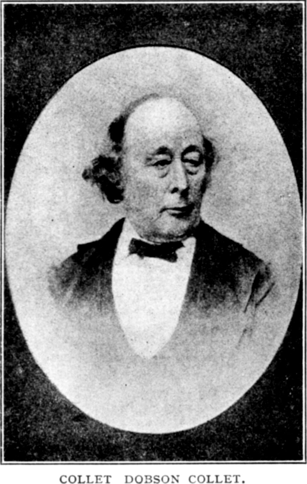 portrait of Collet Dobson Collet 1812-1898, from frontispiece of his book History of the Taxes on Knowledge Other information Scanned and retouched to remove moire and correct contrast